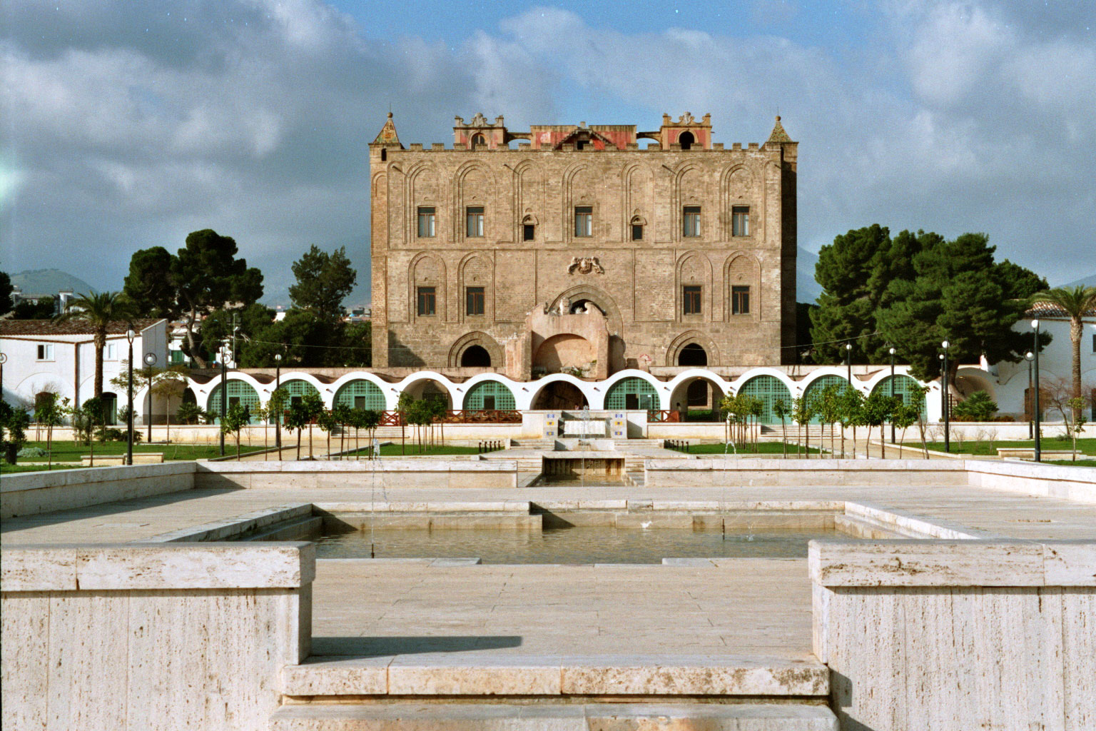 Zisa, Palermo Center axis of the park with water cascades